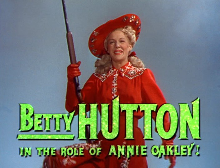 Cropped screenshot of Betty Hutton from the trailer for the film Annie Get Your Gun (1950).